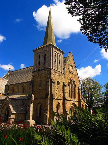 Part of St Paul's parish church, Charlestown, Cornwall, seen from the west